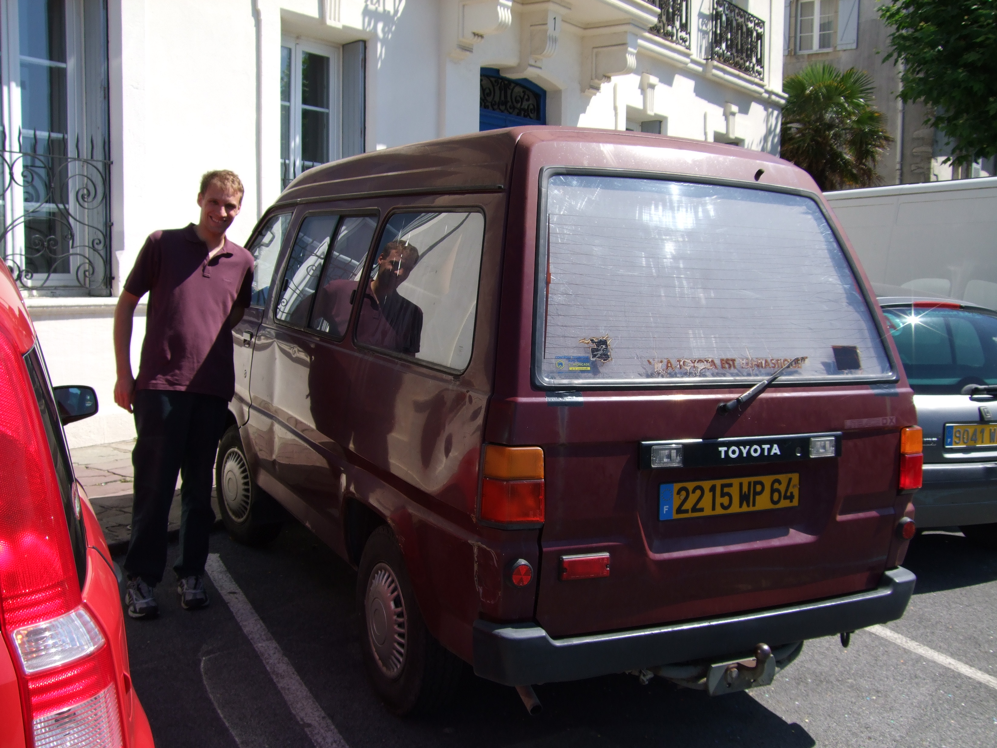 Toyota Liteace Wagon